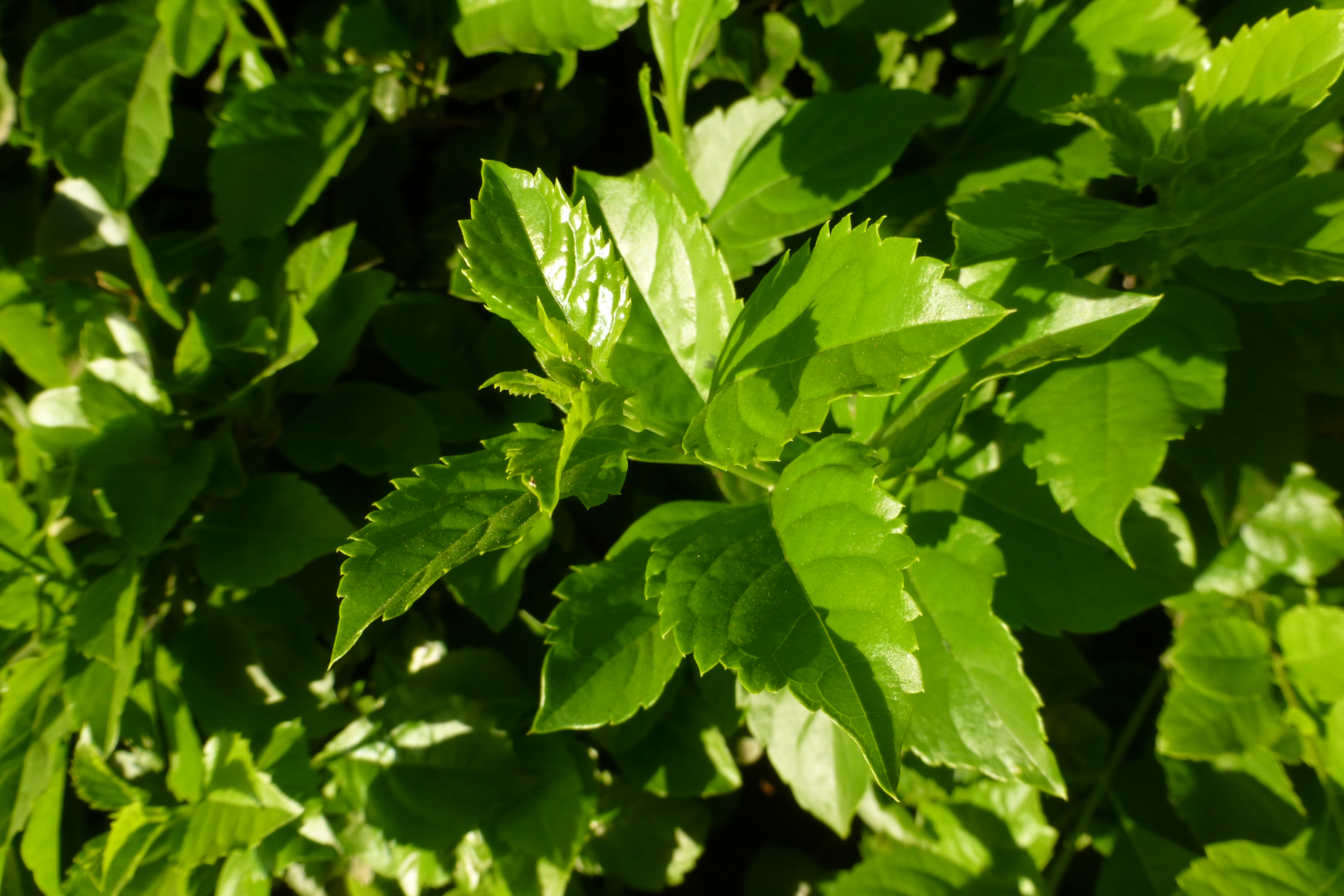 Ramat Gan Leaves